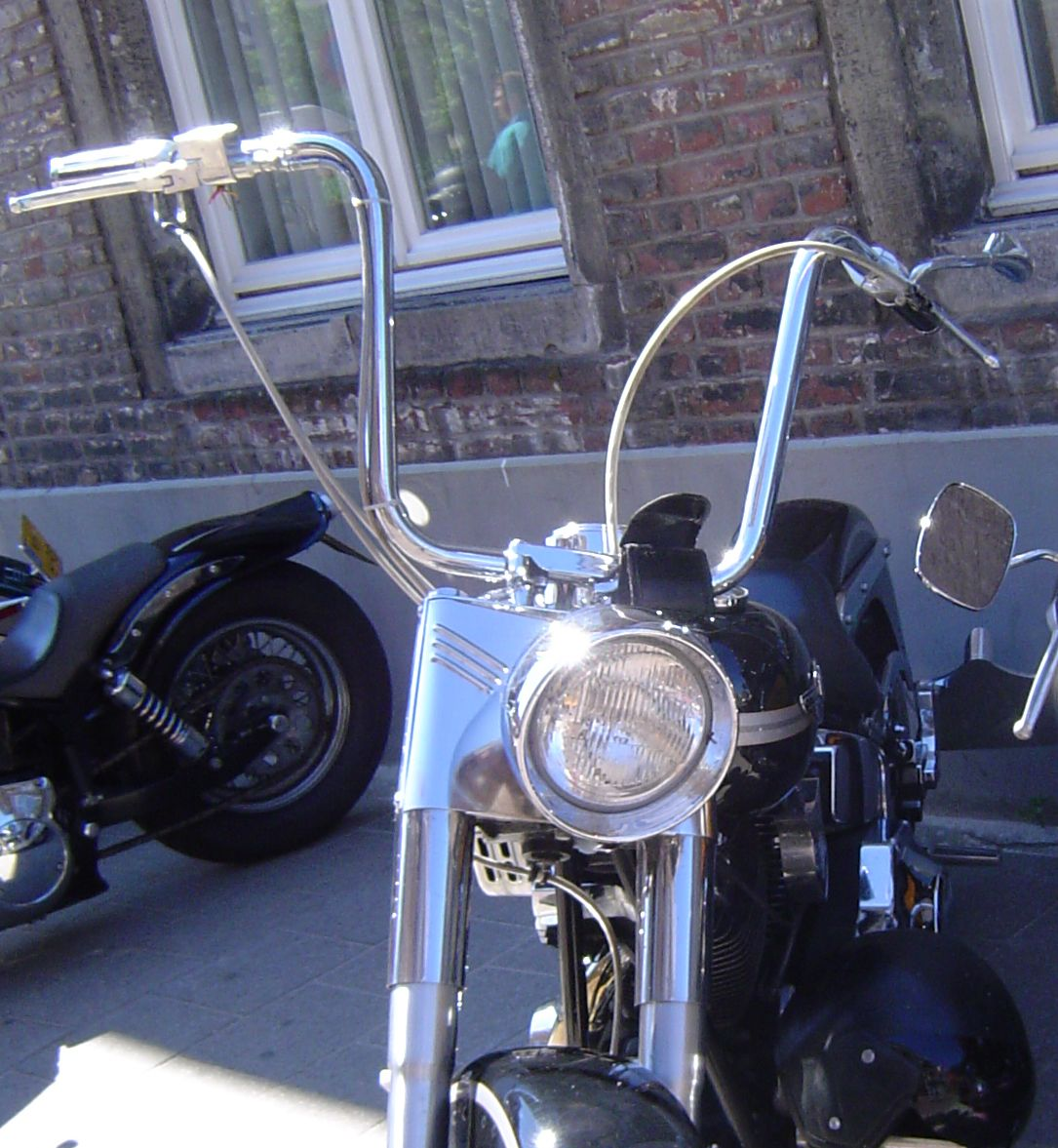 Harley-Davidson Ape Hanger handlebars.